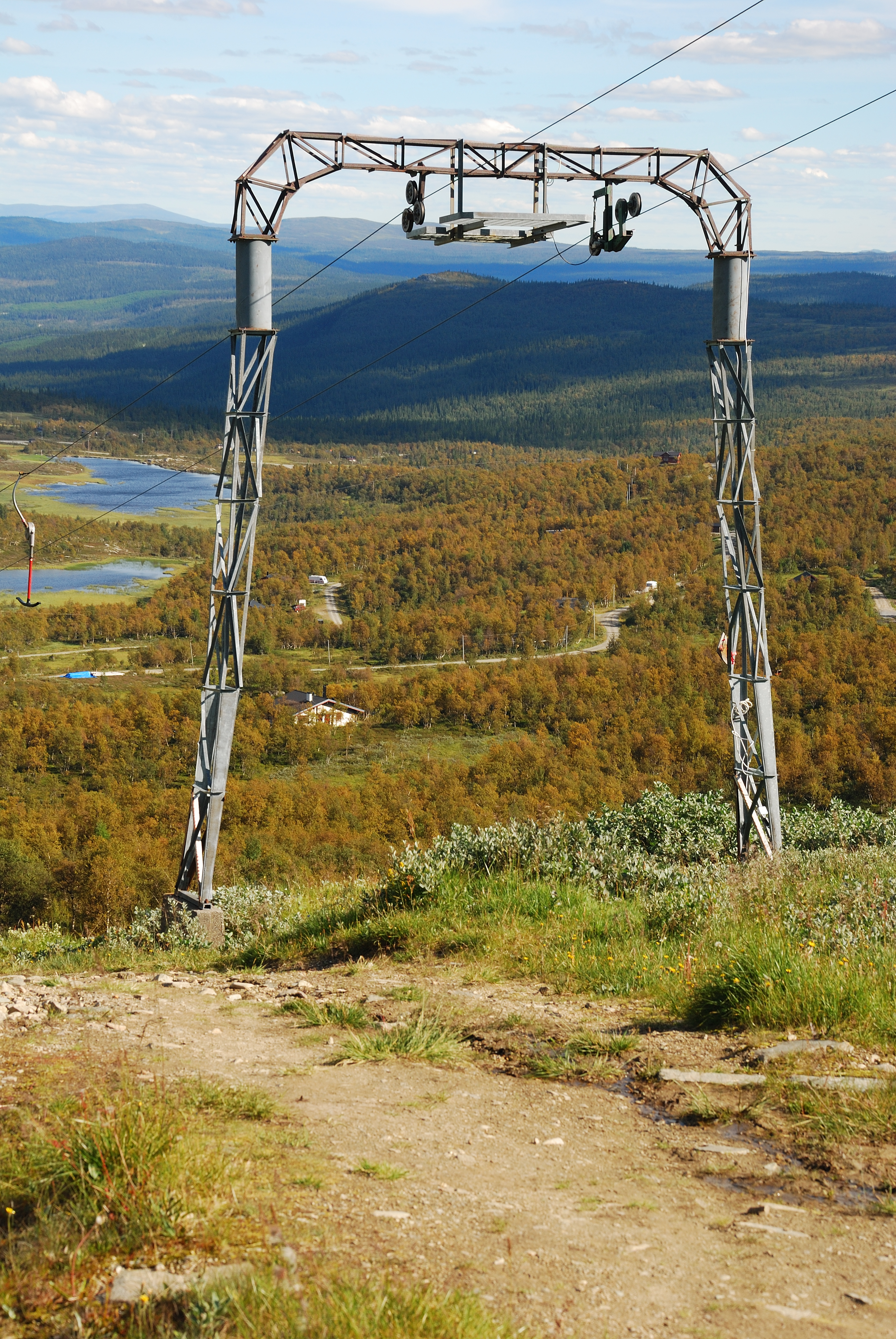 T-bar lifts in Torkilstöten, Ljungdalen Sweden.